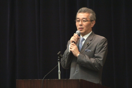 Yoshio Maki, Senior Vice-Minister of Health, Labour and Welfare, addressed at the Central Government Building No.5 in Chiyoda Ward, Tōkyō Metropolis on September 7, 2011.(For terms of use, see 利用規約｜厚生労働省.)